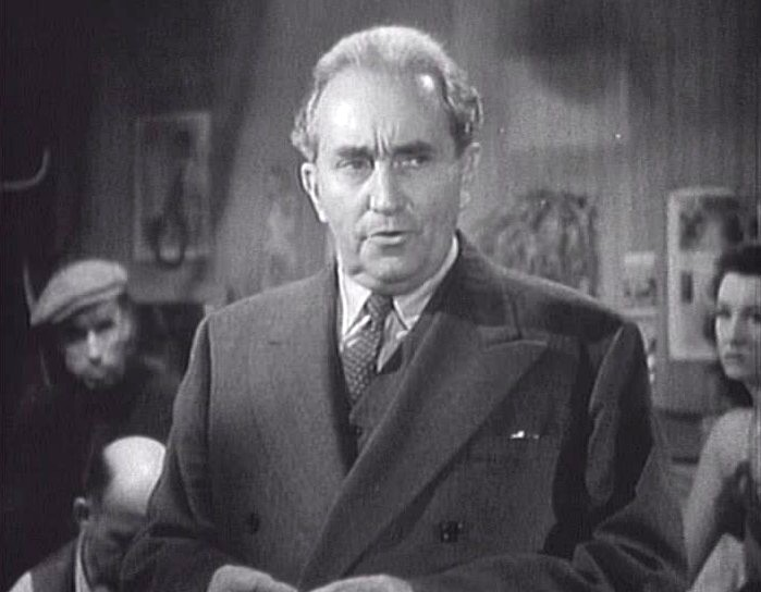 Cropped screenshot of Charles Dingle from the film Lady of Burlesque.